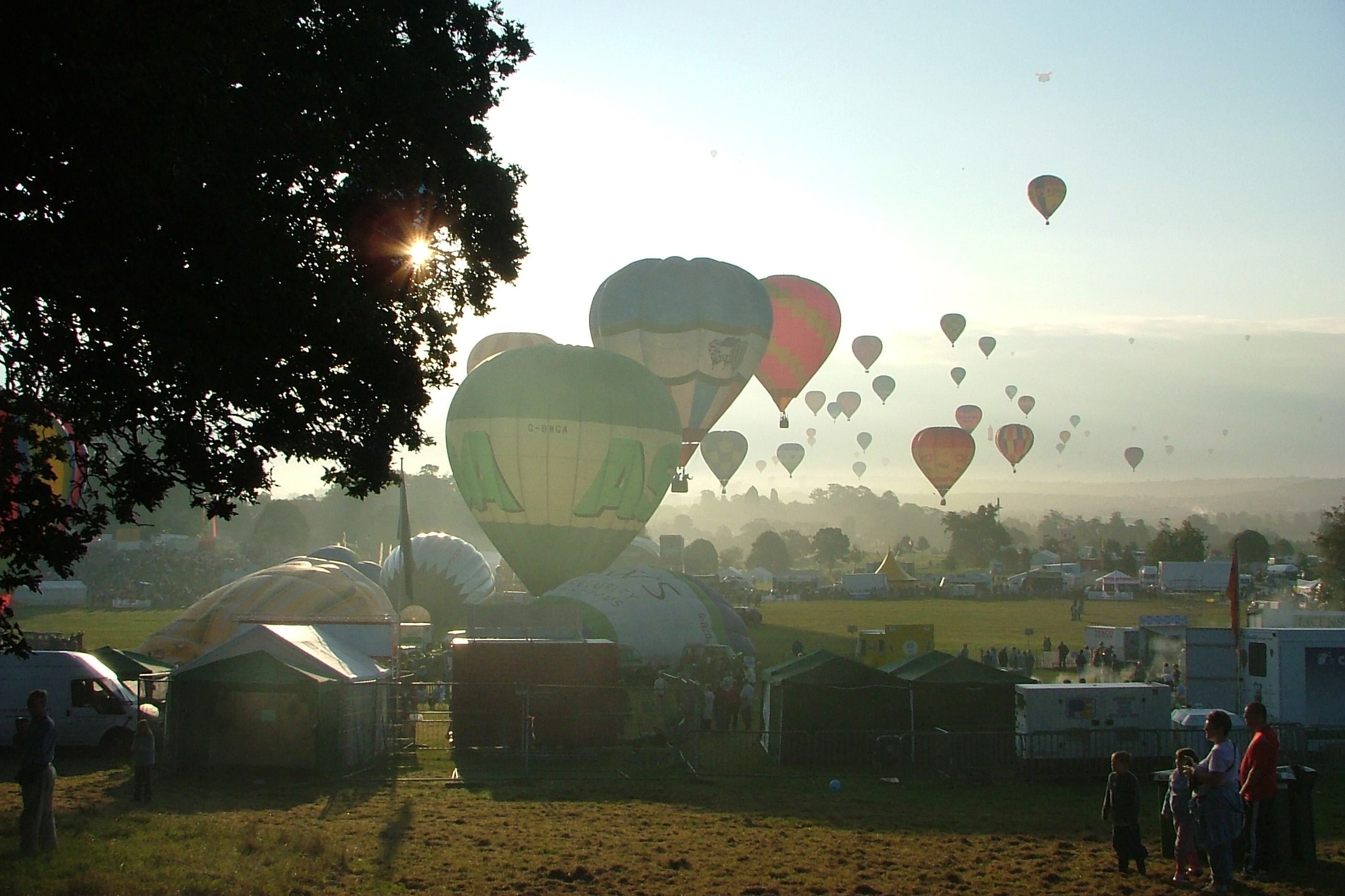 Morning shot of mass balloon ascent at Bristol Balloon Fiesta Picture taken by me in 2004 Bristol balloon fiesta ChrisUK 21:56, 21 Oct 2004 (UTC)